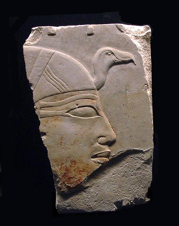 Profile of Ankhnespepy II, wife of Pepy I mother of Merenre Pepy II, from Saqqara, Pyramid complex of Queen Ankhnespepy II, Funerary Temple. Saqqara. Imhotep Museum.